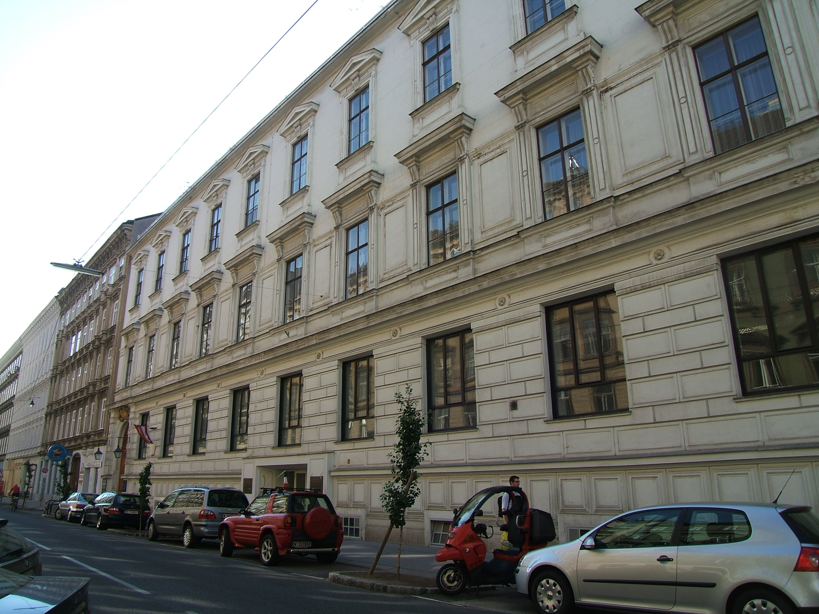 Palais Festetics in Vienna 9th district Berggasse 16.